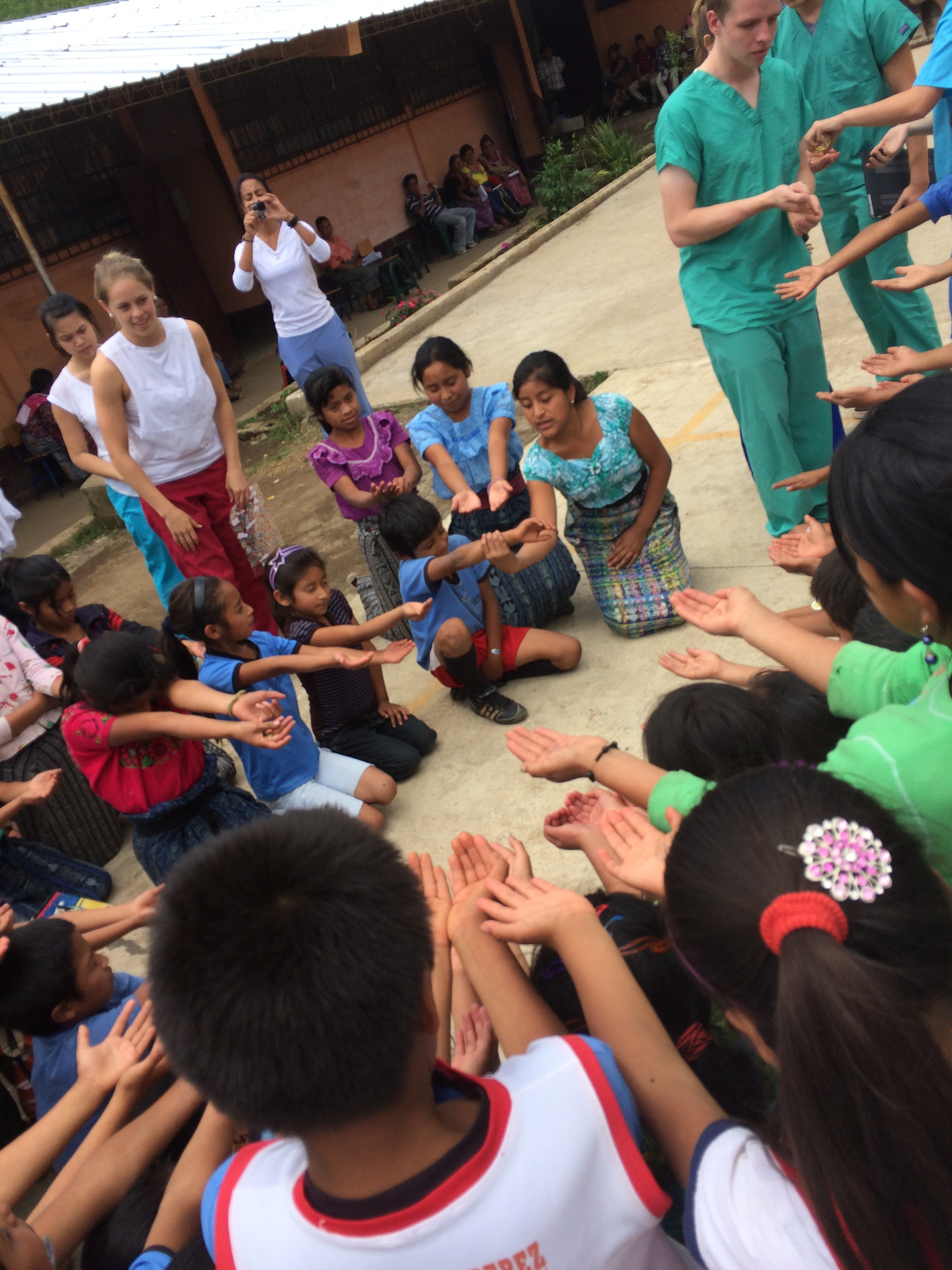 An image of public health education, focused on nutrition, being implemented in an elementary school in rural Guatemala.